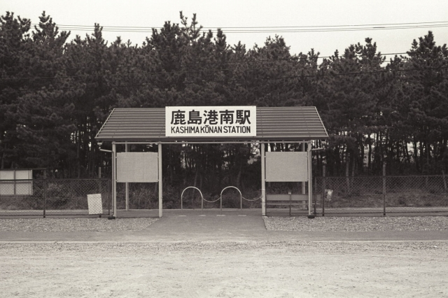 Kashima Seaside Railway Kashima-Konan Station